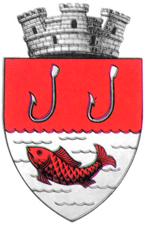 Interwar coat of arms of Zastavna, Cernăuți County, Kingdom of Romania.